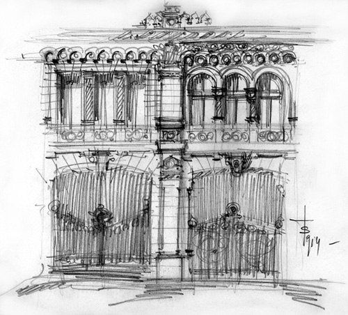 Sketch of facade. Extract from sketches (croquis) notebook of Toma T. Socolescu. We are the only heirs and descendants of Toma T. Socolescu (died in 1960 in Bucharest) and therefore owner of all his intellectual rights.